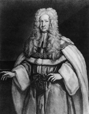 Portrait of Sir Thomas Pengelly (1675-1730)